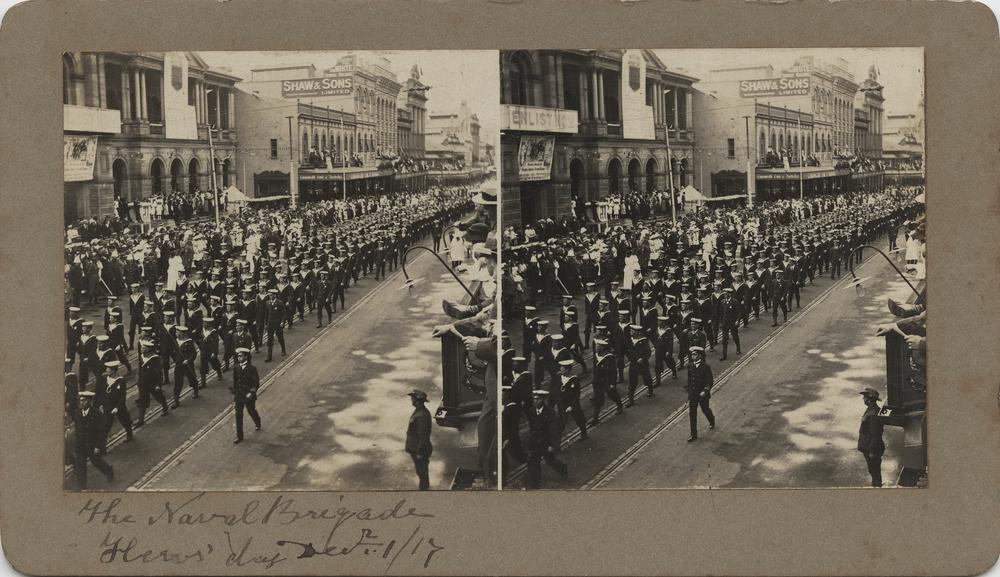 Naval parade through Brisbane on Hero's Day, 1917.